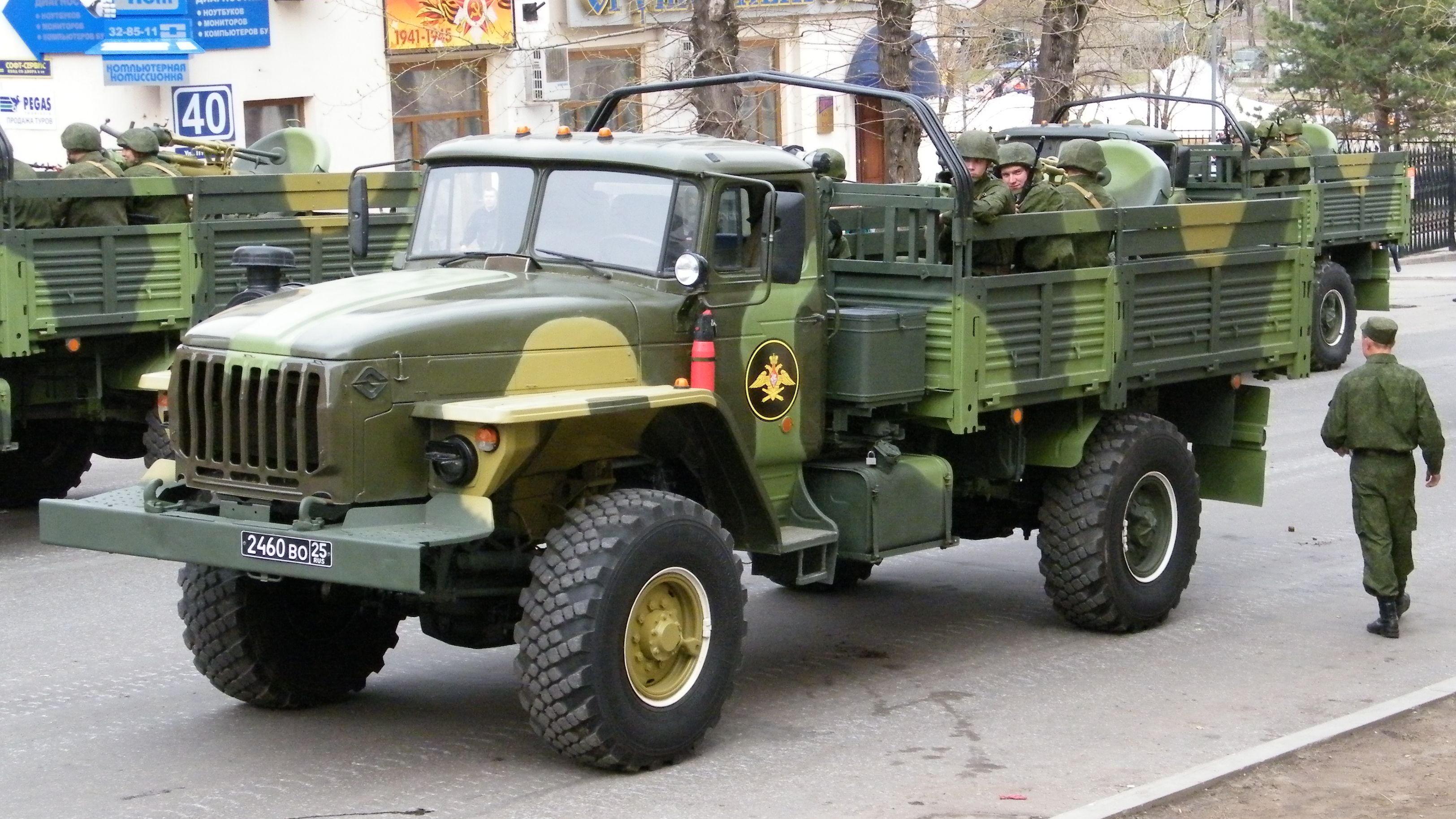 Урал-43206